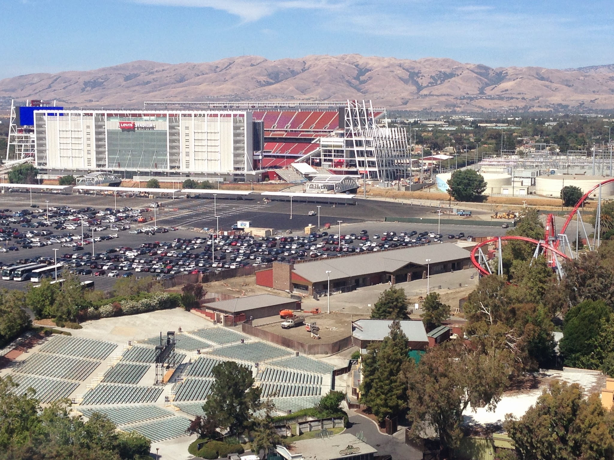 San Jose, California. From tower at California's Great America theme park.